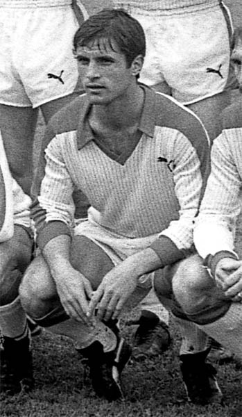 Costel Orac playing for Dinamo in 1984